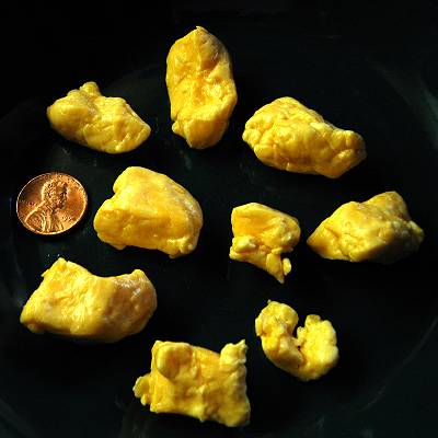 Cheese curds.